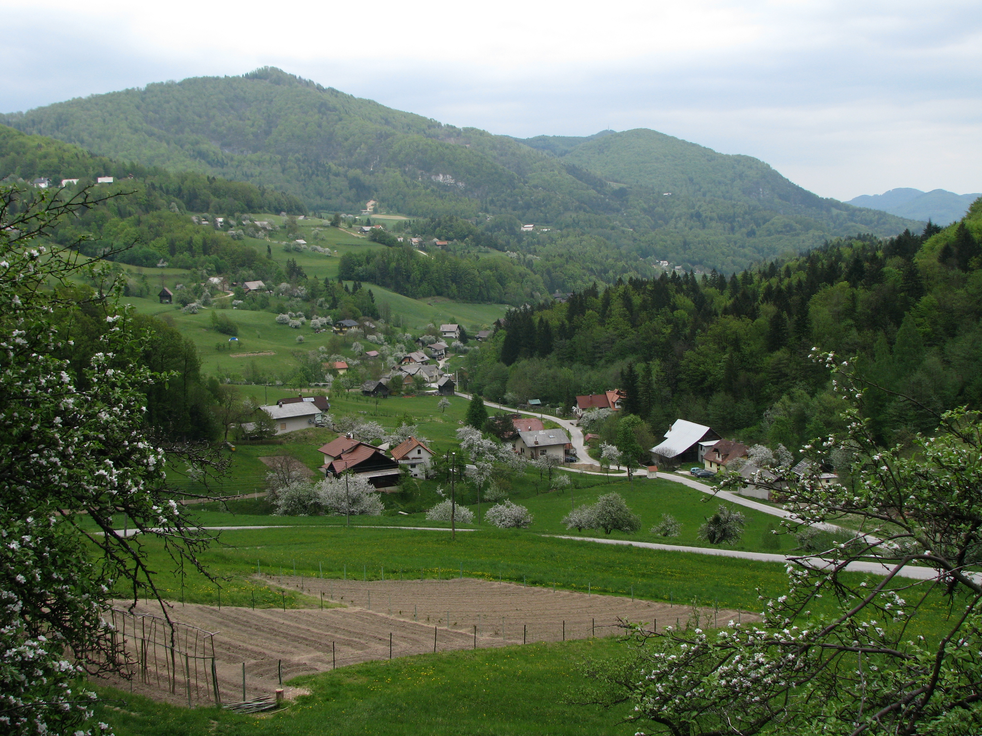 Village of Zgornja Rečica, Laško municipality, Slovenia, a view from a hill